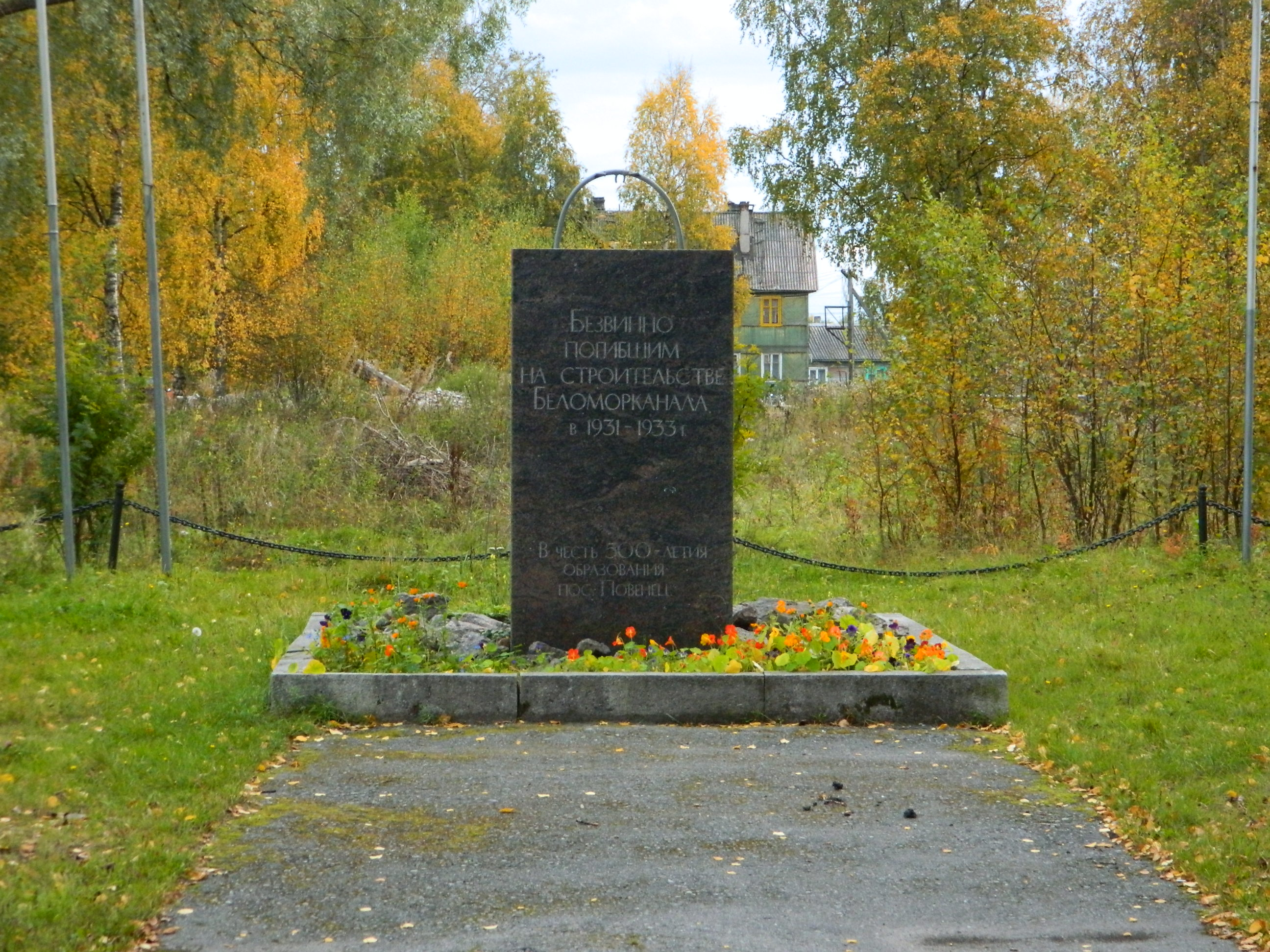 A memorial to convicts perished during the construction of the White Sea Canal